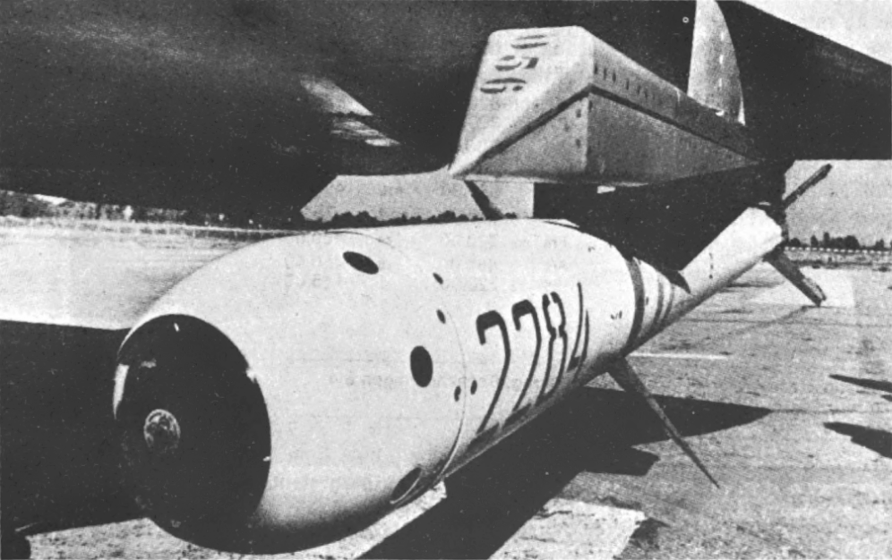 Israel's air-to-air missile Shafrir is a heat-seeking missile, which weighs approximately 205 pounds with a 24-pound warhead which is equipped with optional impact or proximity fuzes. This solid-propellant rocket is just over 8 feet long and has an effective range of more than 3 miles. This missile's number is "2284"